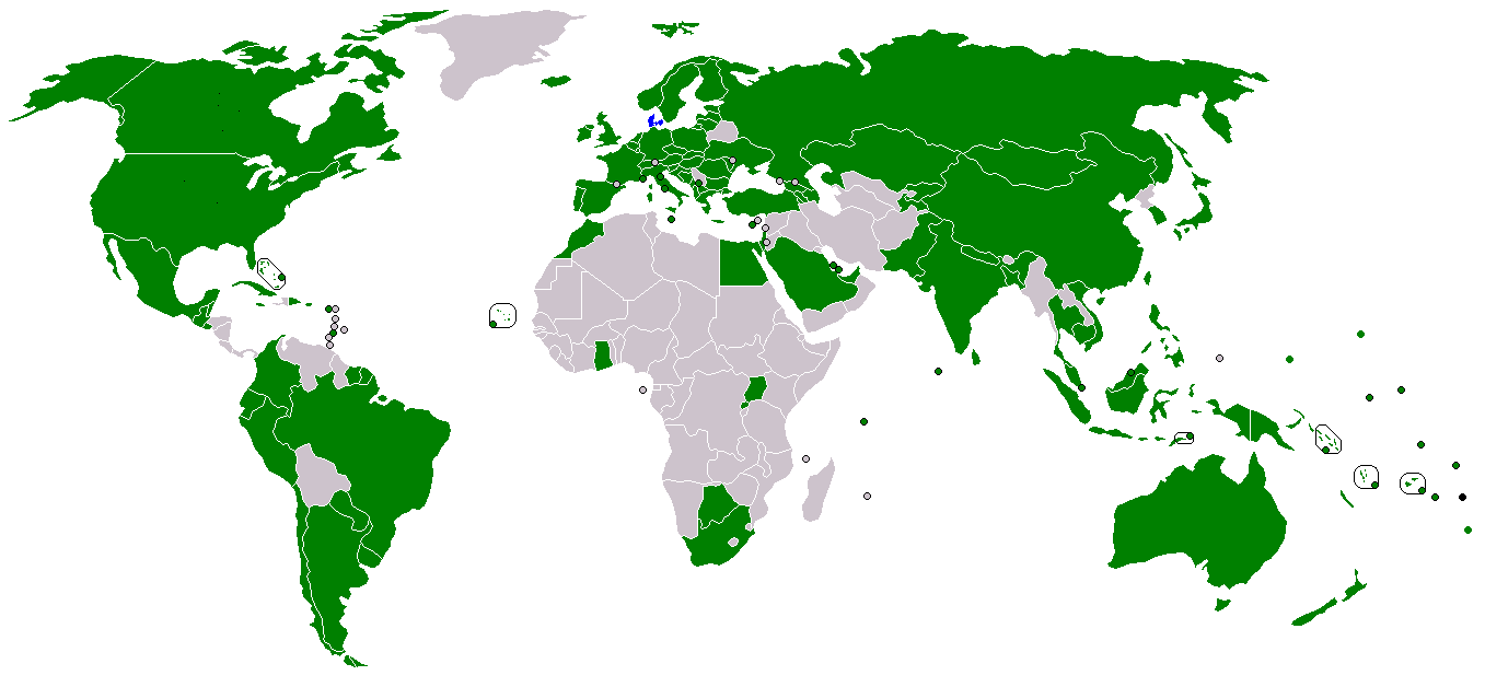 The map of the countries wich has diplomatic relations with Samoa